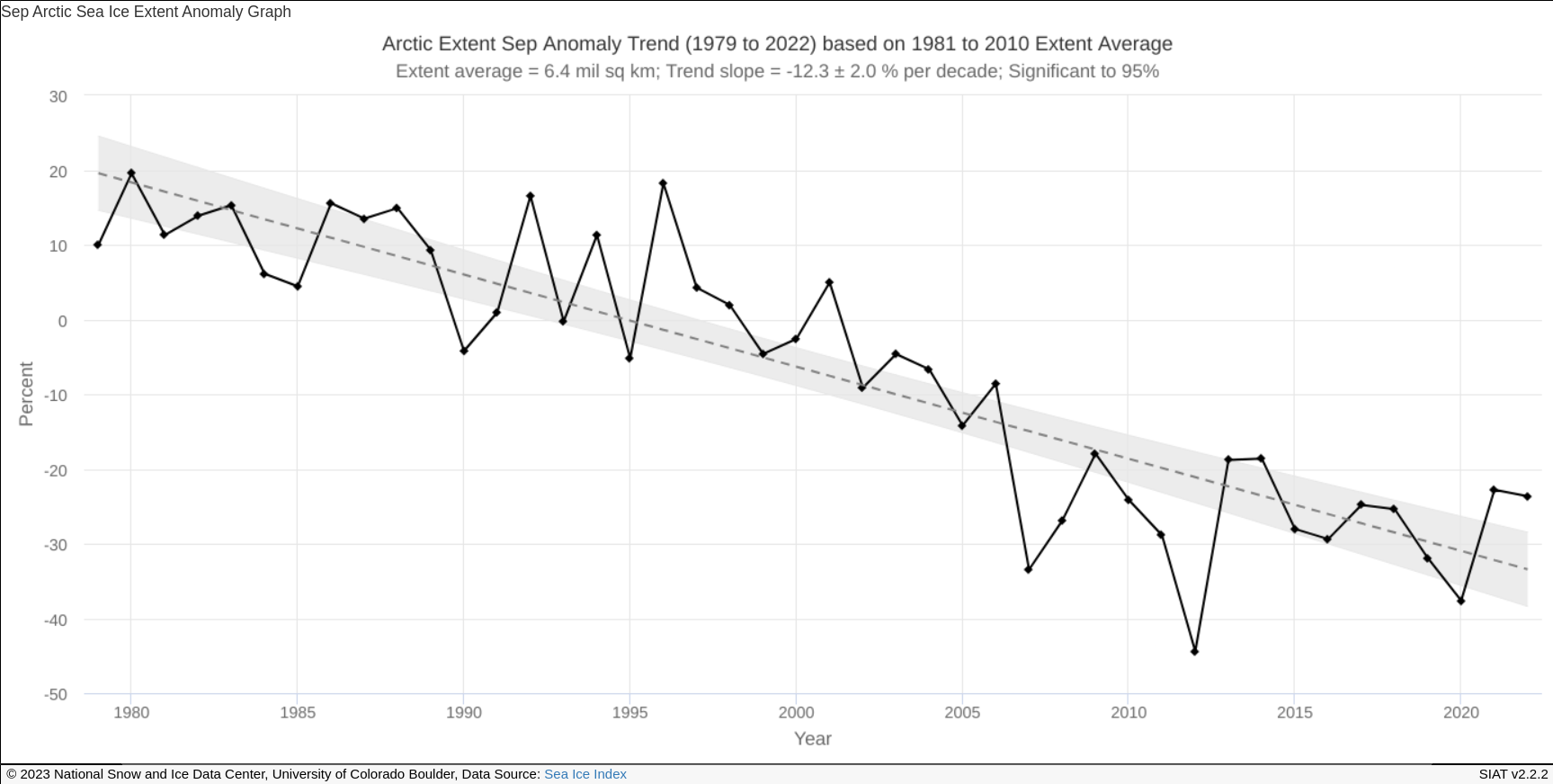 Trends in Extent Northern Hemisphere (Arctic) Sea Ice: Ice extent anomalies are plotted as a time series of percent differences between the total extent for the month in question, and the mean for that month, where the mean is based on the January 1979 - December 2000 portion of the data set. The trend, in percent change per decade, is obtained using least squares regression, and a 95% confidence interval for the resulting slope is given.